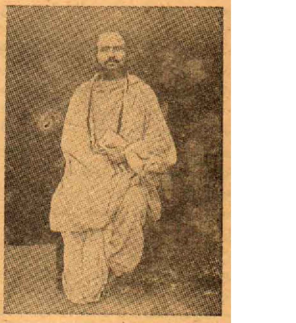 చిదిరెమఠం వీరభద్రశర్మ